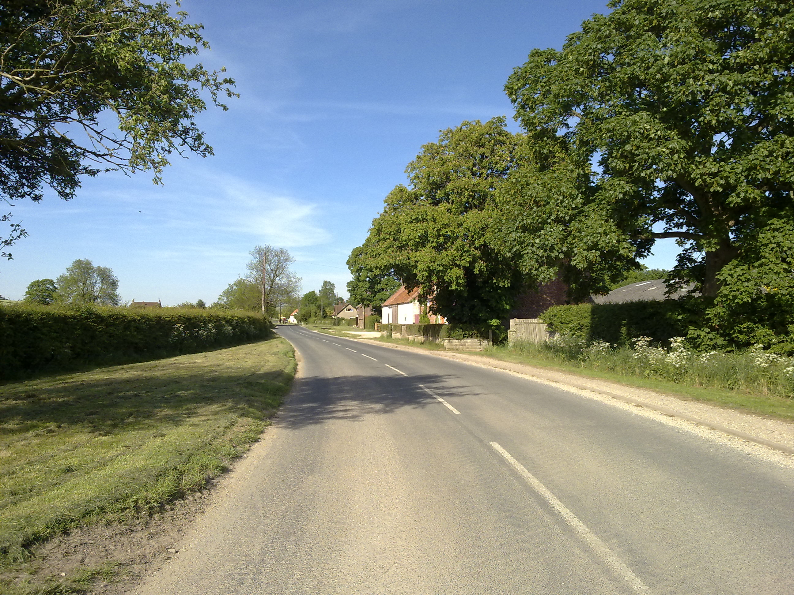 Butterwick